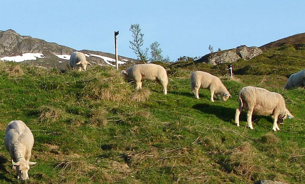 Norwegian Dalasau (Dala-sheep)in the mountain, where most of the Norwegian sheeps lives in the summer.Norwegian: Dala-sauen er den rasen det er mest av i Norge og utgjer åleine over 40% av bestanden.